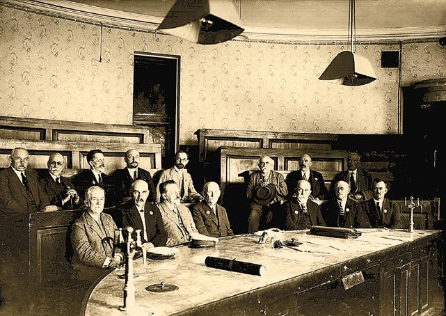 Members V Mendeleev Congress. Kazan University. 1928